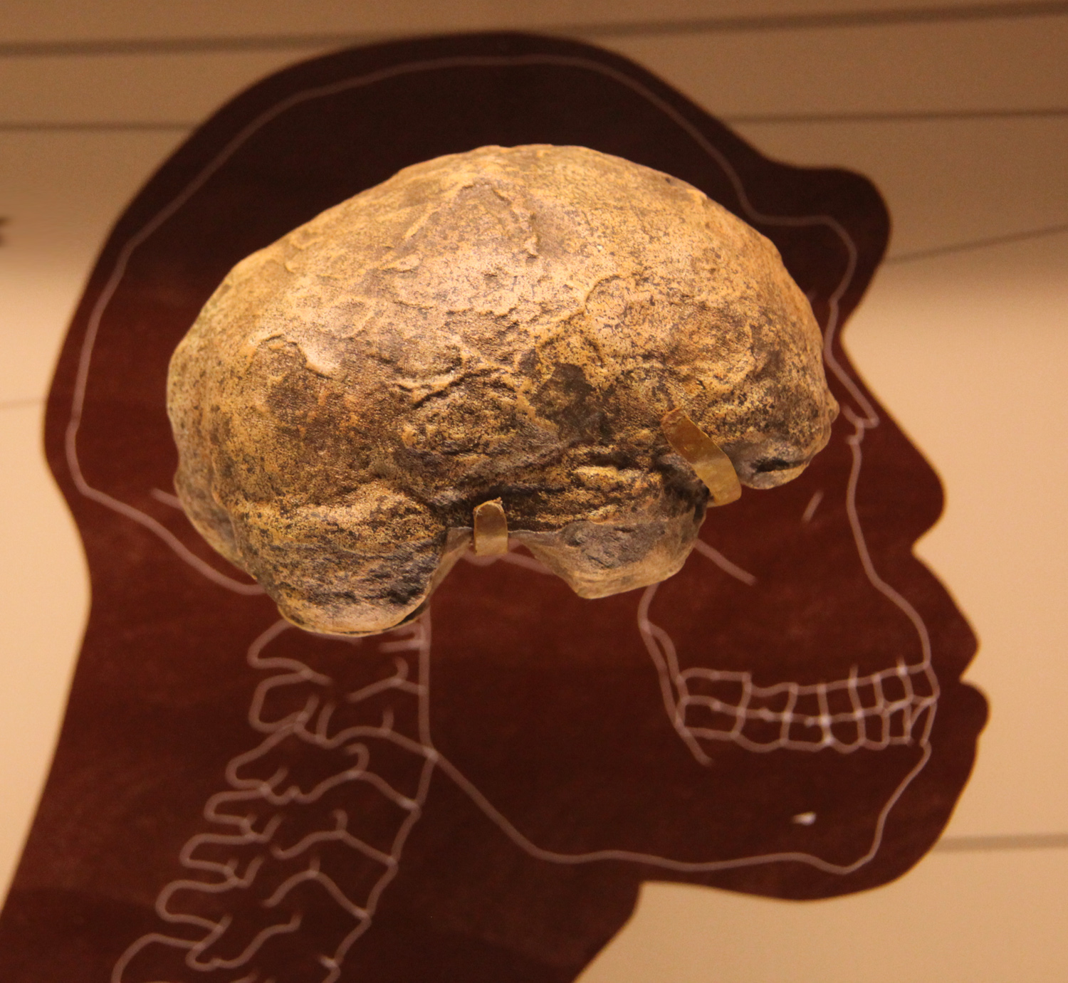 An endocast of an adult Homo erectus, on display in the Hall of Human Origins in the Smithsonian Museum of Natural History in Washington, D.C. Homo erectus lived between 1.8 to 1.3 million years ago. It was discovered on the island of Java in 1891 by Eugène Dubois. (It was initially known as "Java Man.") Their brains varied in size, with earlier specimens and specimens in distinct sub-populations having slightly smaller brains than Homo sapiens, and others being just slightly larger. They were about as tall as modern humans, but much more muscular. An endocast is where scientists fill the inside of a skull, and make a model of the brain. The brain and its blood vessels leave imprints on the inside of the skull. Because more advanced brains have smaller veins and many more folds and lobes, an endocast is very useful in determing how intelligent a human ancestor might have been, and what portions of its brain were more developed.